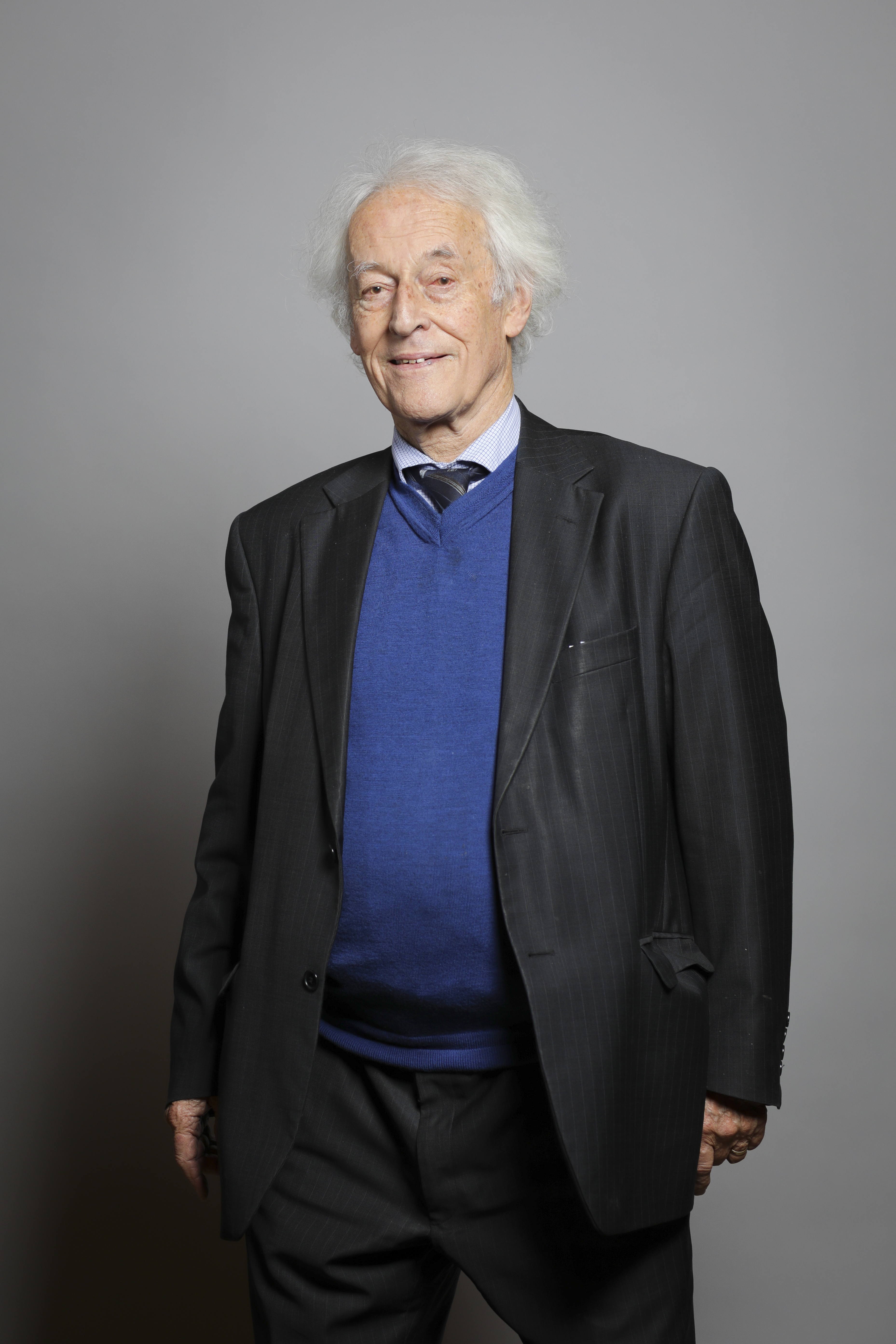 Official portrait of Lord Morgan Full sized portrait of Lord Morgan